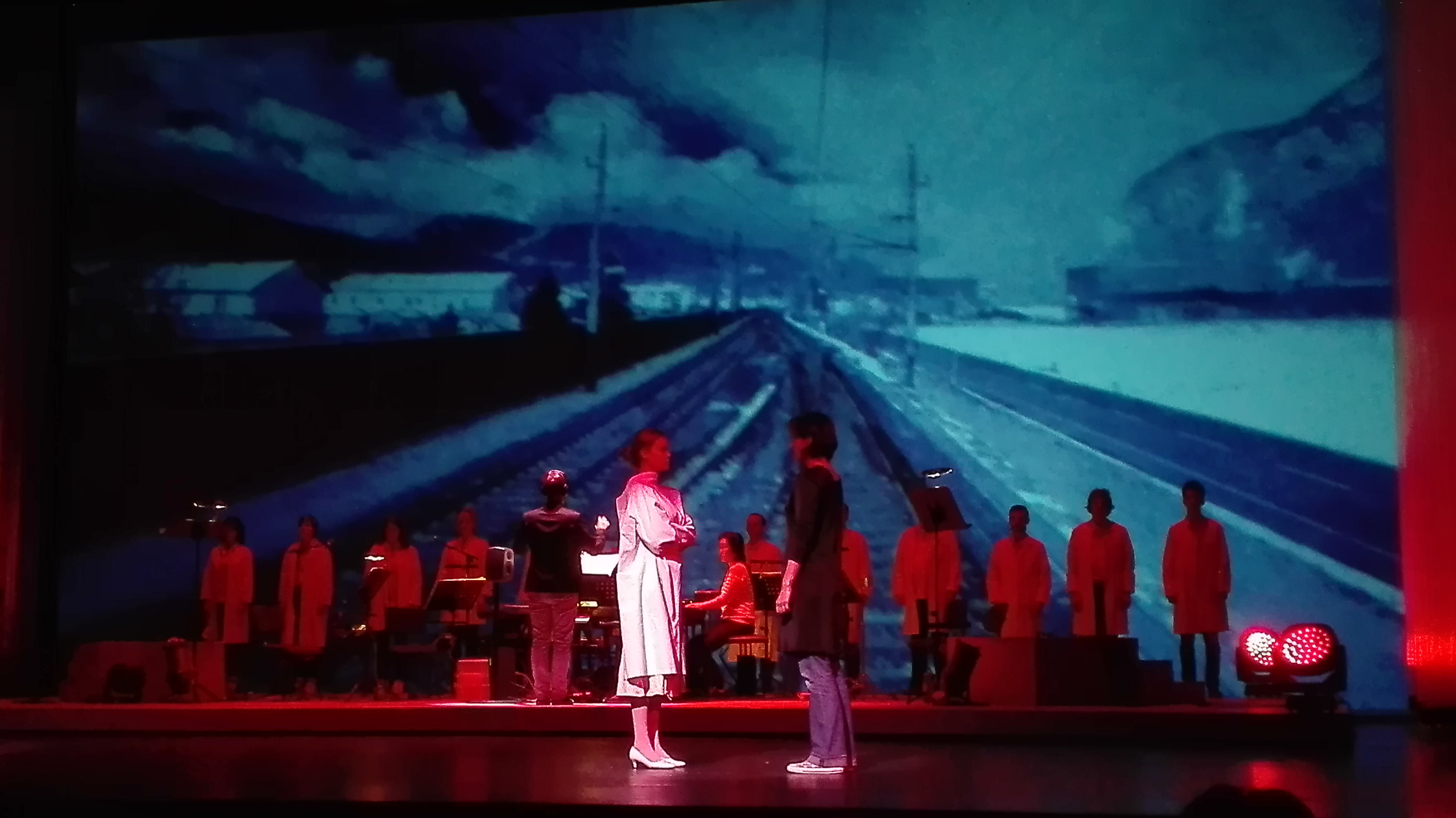 training for the opera Einstein on the Beach, Dortmund, 11 April